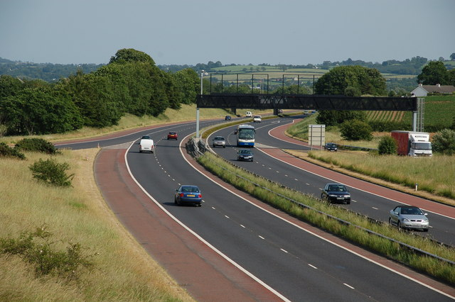 M1 Moira. The M1 between Sprucefield and Lurgan opened in two sections in late 1965 and early 1966. Part of the section between Sprucefield and Moira was built on the course of the Lagan canal. This is the view towards Belfast from the bridge at Moira roundabout (see also J1561).